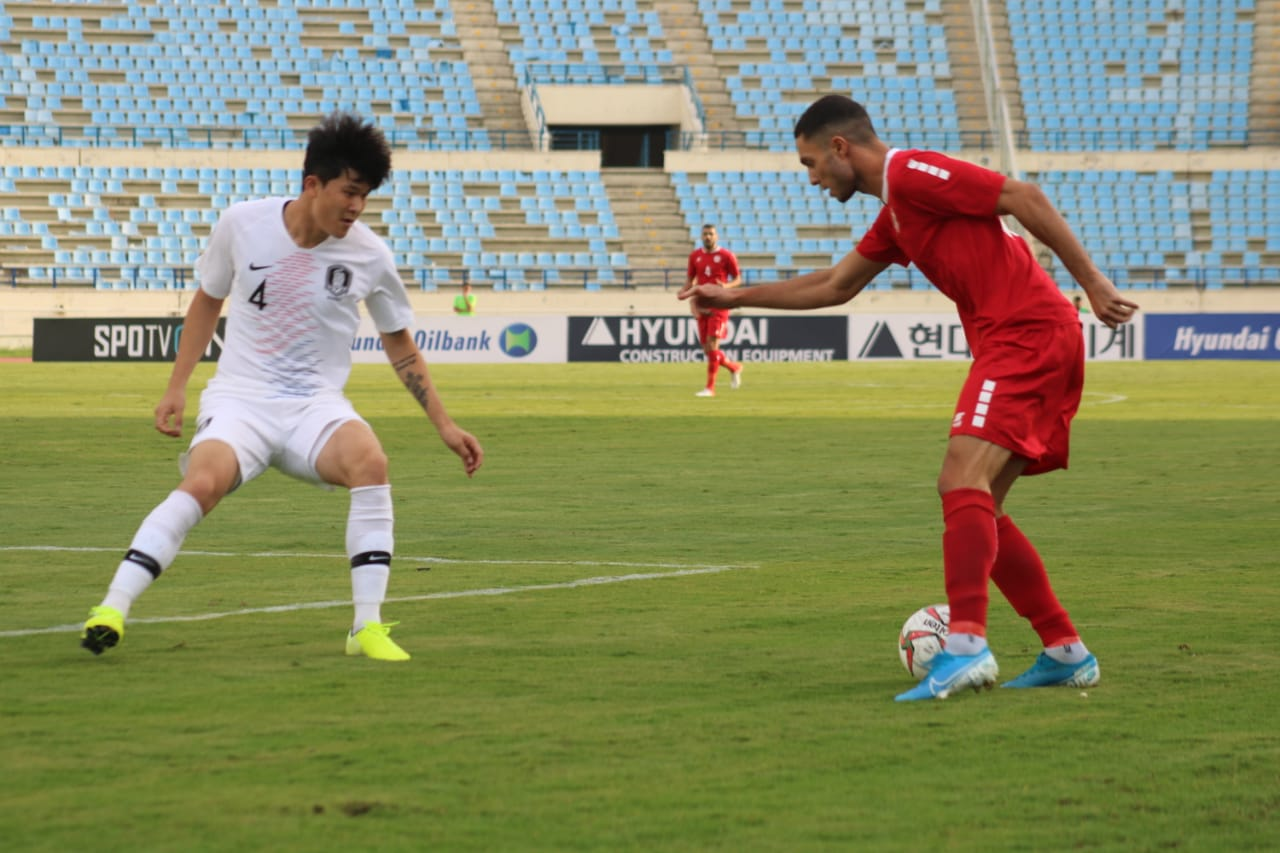 Lebanon v South Korea at the 2022 FIFA World Cup qualifiers.